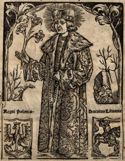 Woodcut of Saint Casimir - the oldest known image of the saint